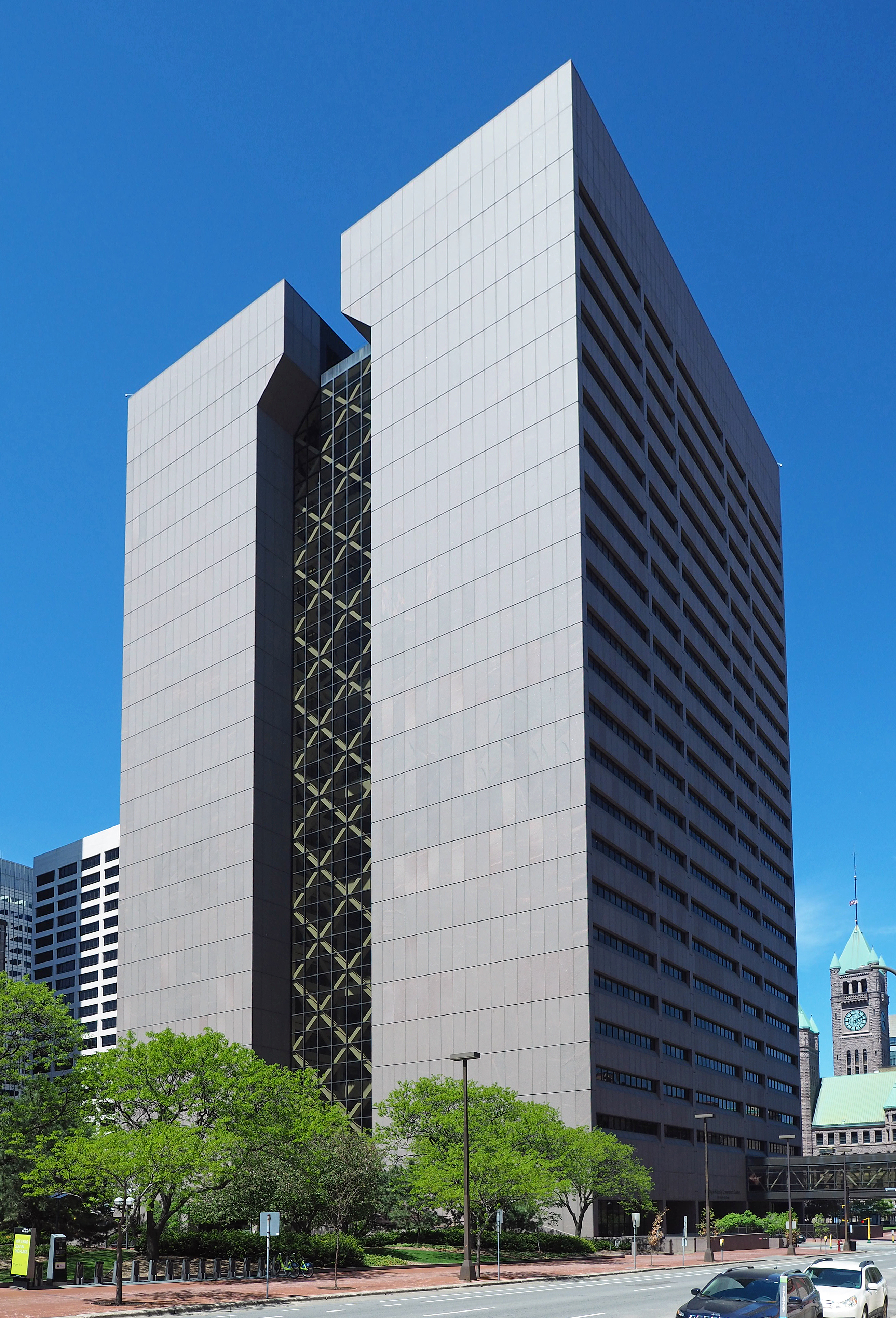 Hennepin County Government Center, 300 S 6th St, Minneapolis, Minnesota, USA. Viewed from the south.